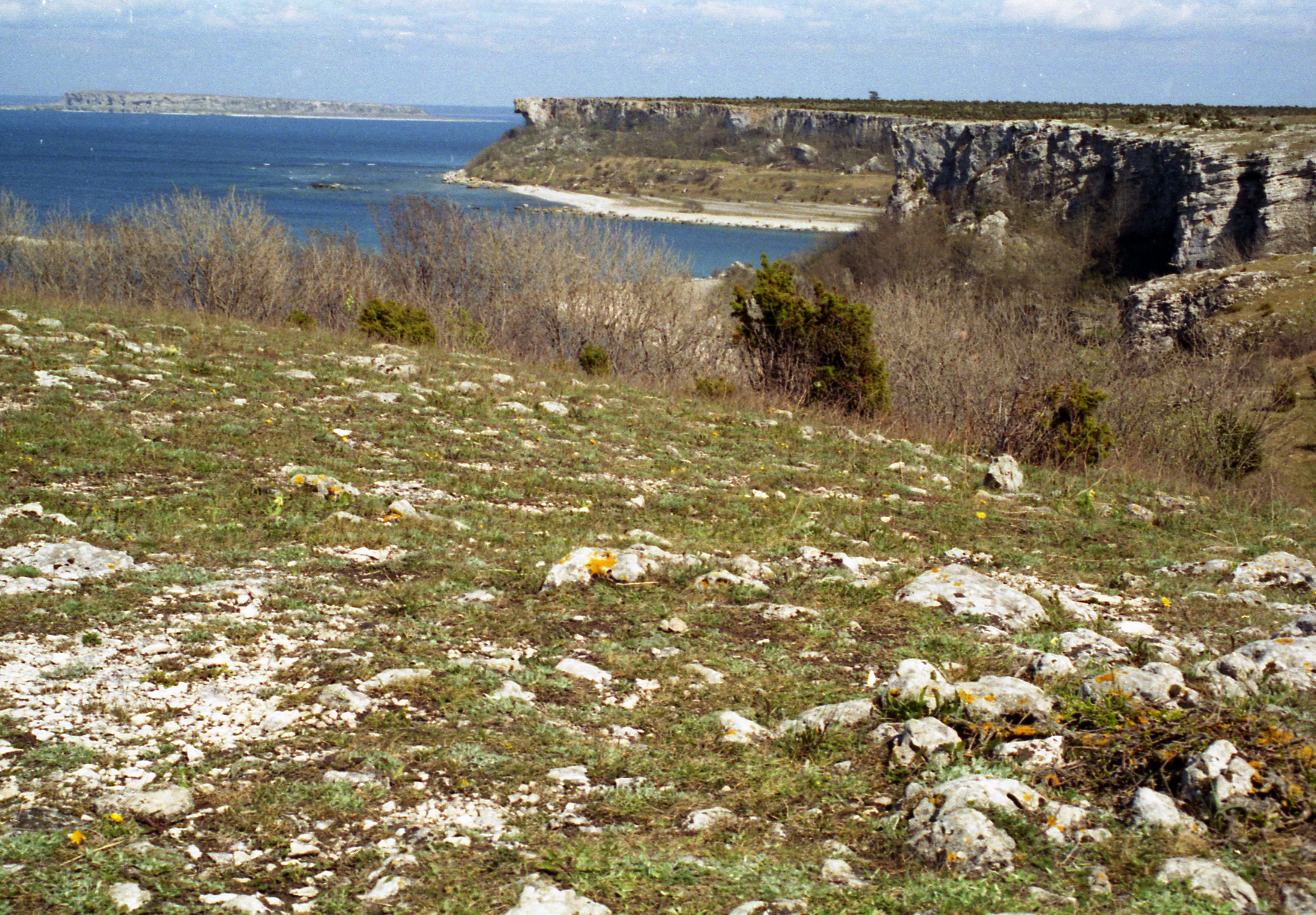 Archaeology Field Course, Ajvide, May 6 - 31, 1996